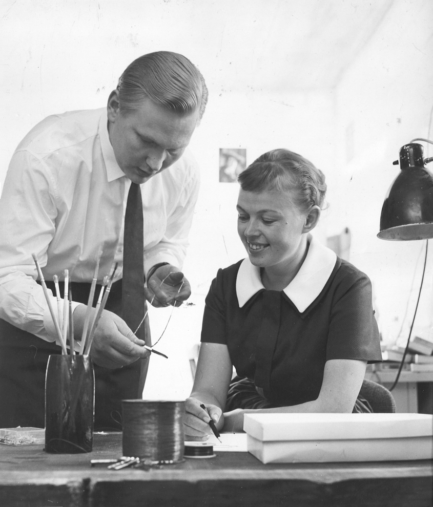 Photograph of the Finnish designer Kaija Aarikka (1929–2014) and her husband Erkki Ruokonen